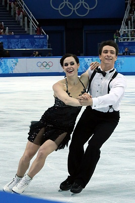 Tessa Virtue and Scott Moir at the 2014 Winter Olympics